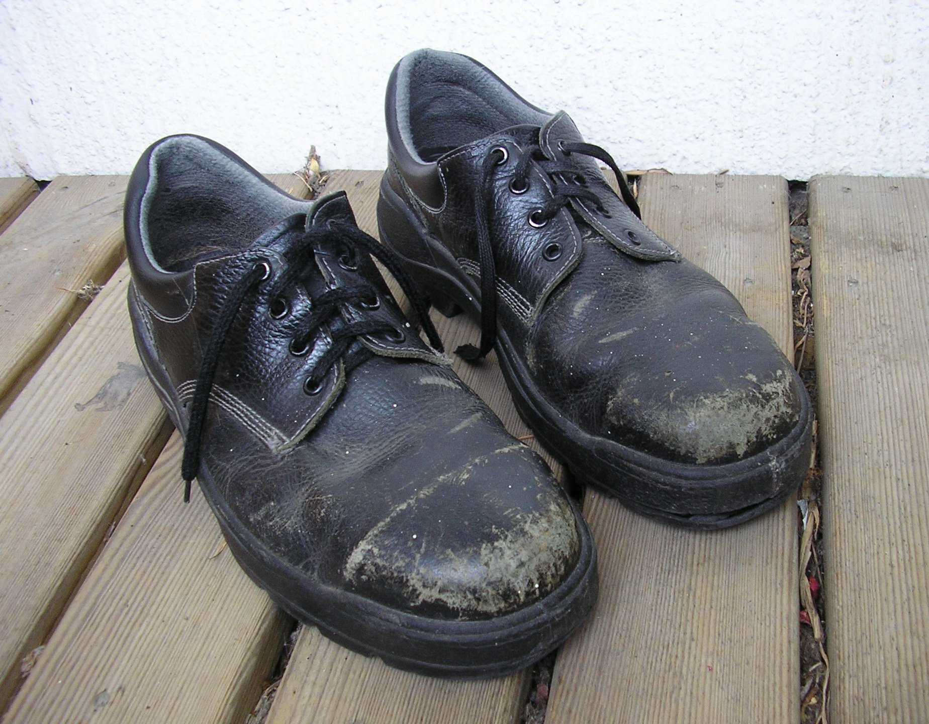 Steel-toe boots, aka safety boots. These boots also has ESD protection.